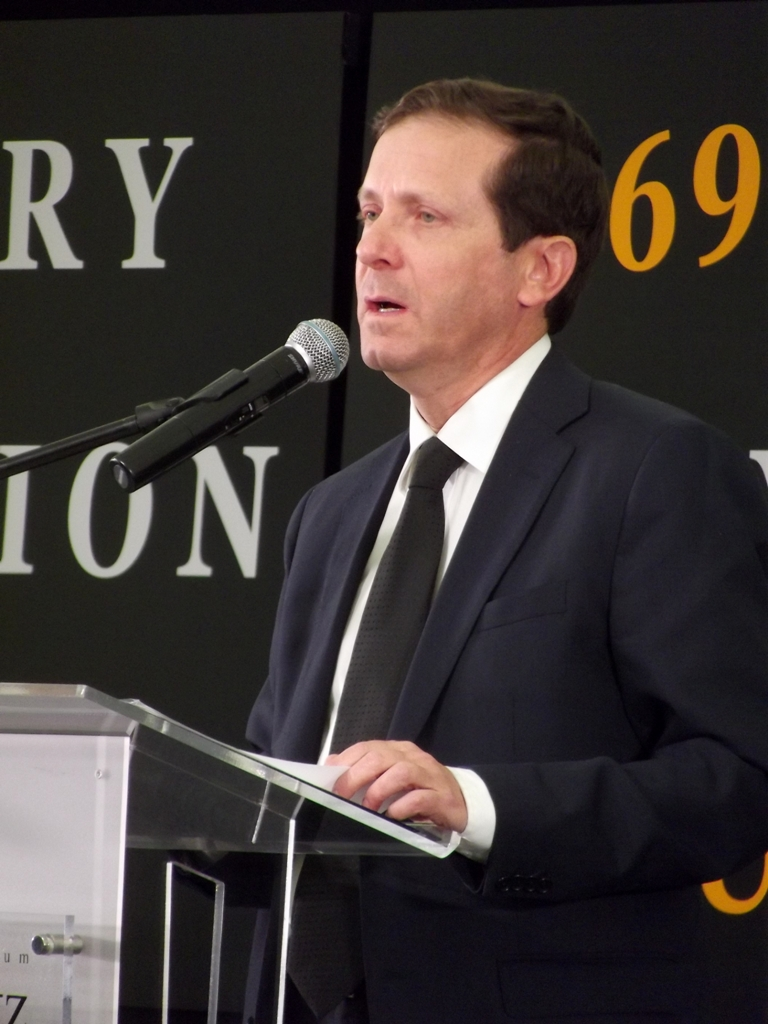 Picture taken during 69th anniversary of the liberation of the Auschwitz-Birkenau concentration camp.